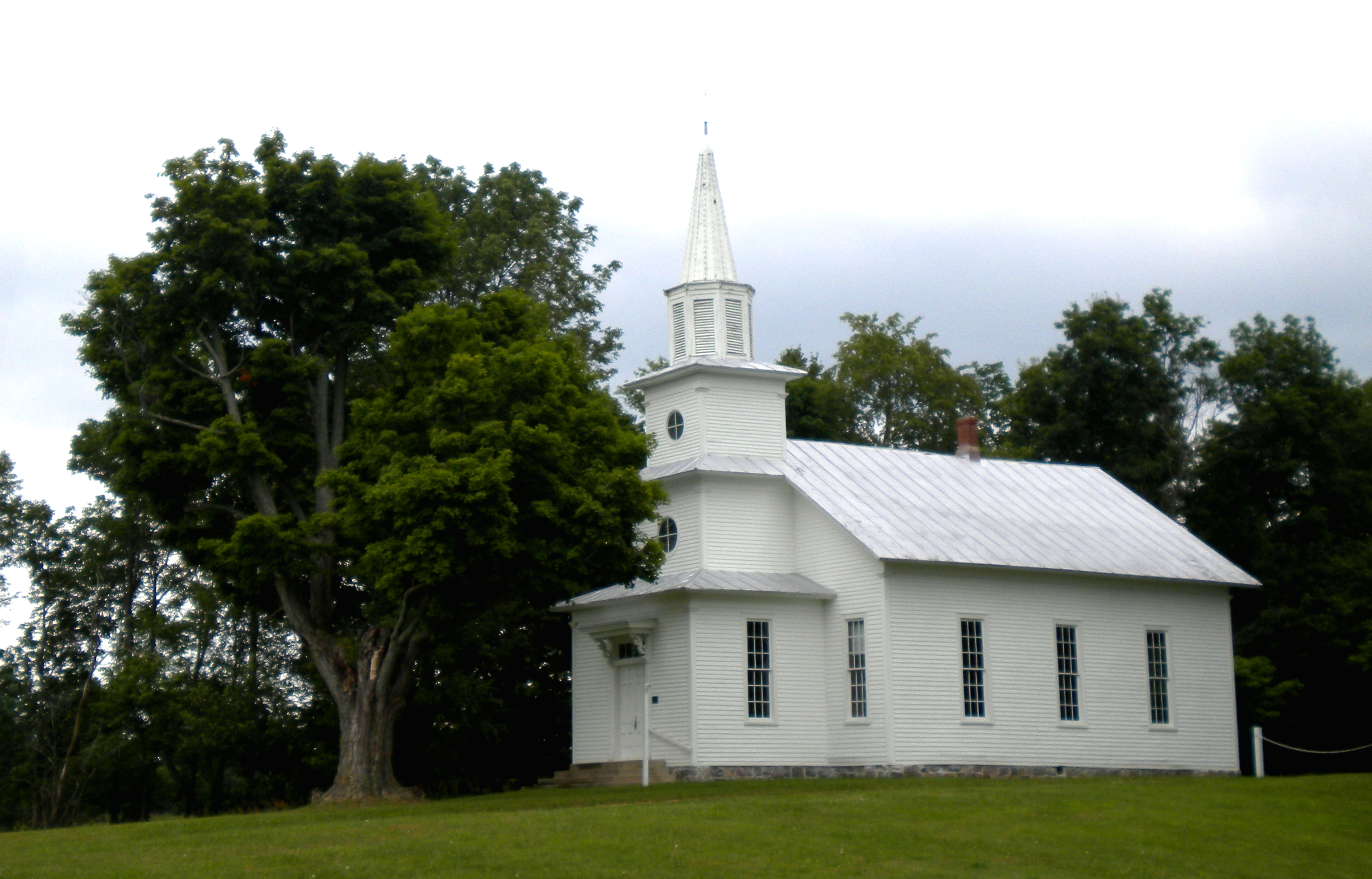 The Powers Church, in Steuben County, Indiana, USA. This church is on the National Register of Historic Sites.